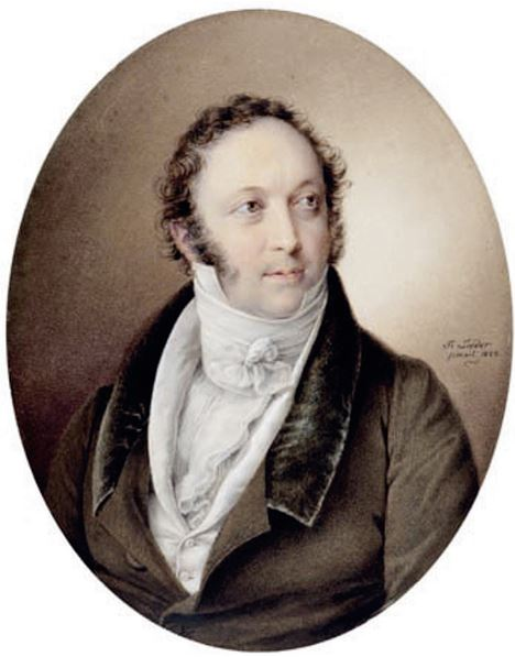 Rossini-by-Friedrich Lieder-1822